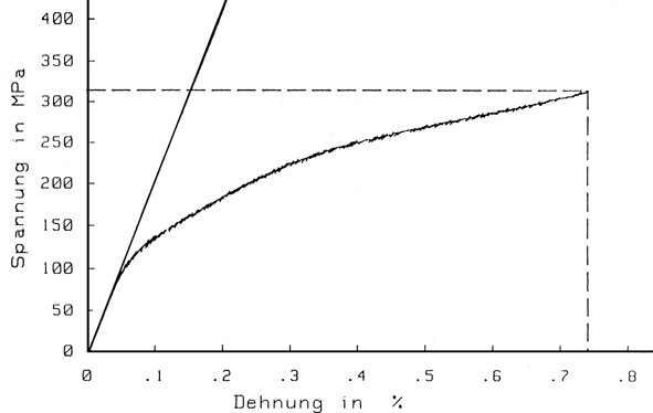 Stress-Strain-Curve of a tensile strength test of a CVI-SiC/SiC sample (Ceramic Matrix Composite with SiC-fibres and SiC-matrix)